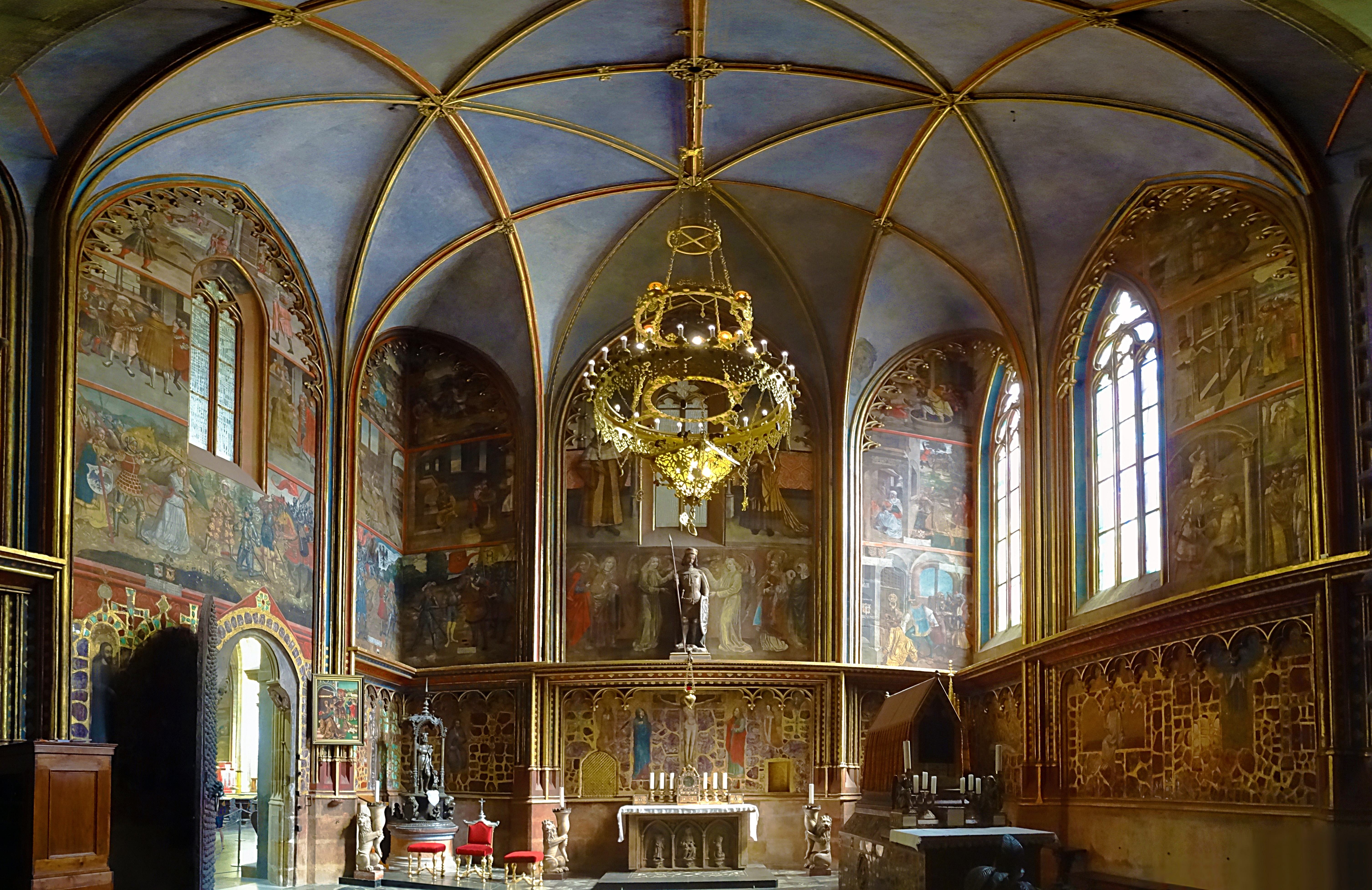 Chapel of St. Wenceslas in St. Vitus Cathedral (Prague)